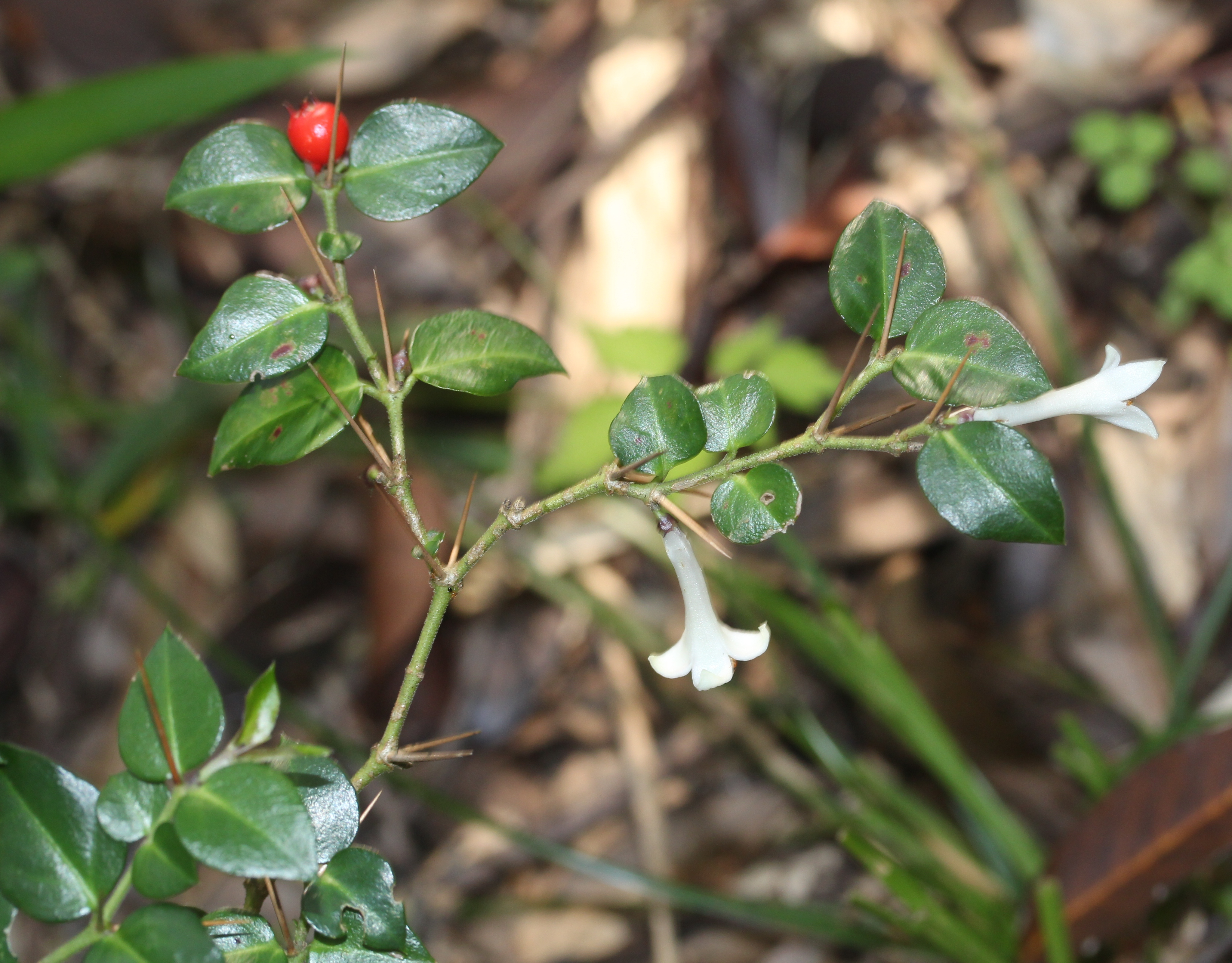 Damnacanthus indicus in Inabe, Mie prefecture, Japan.